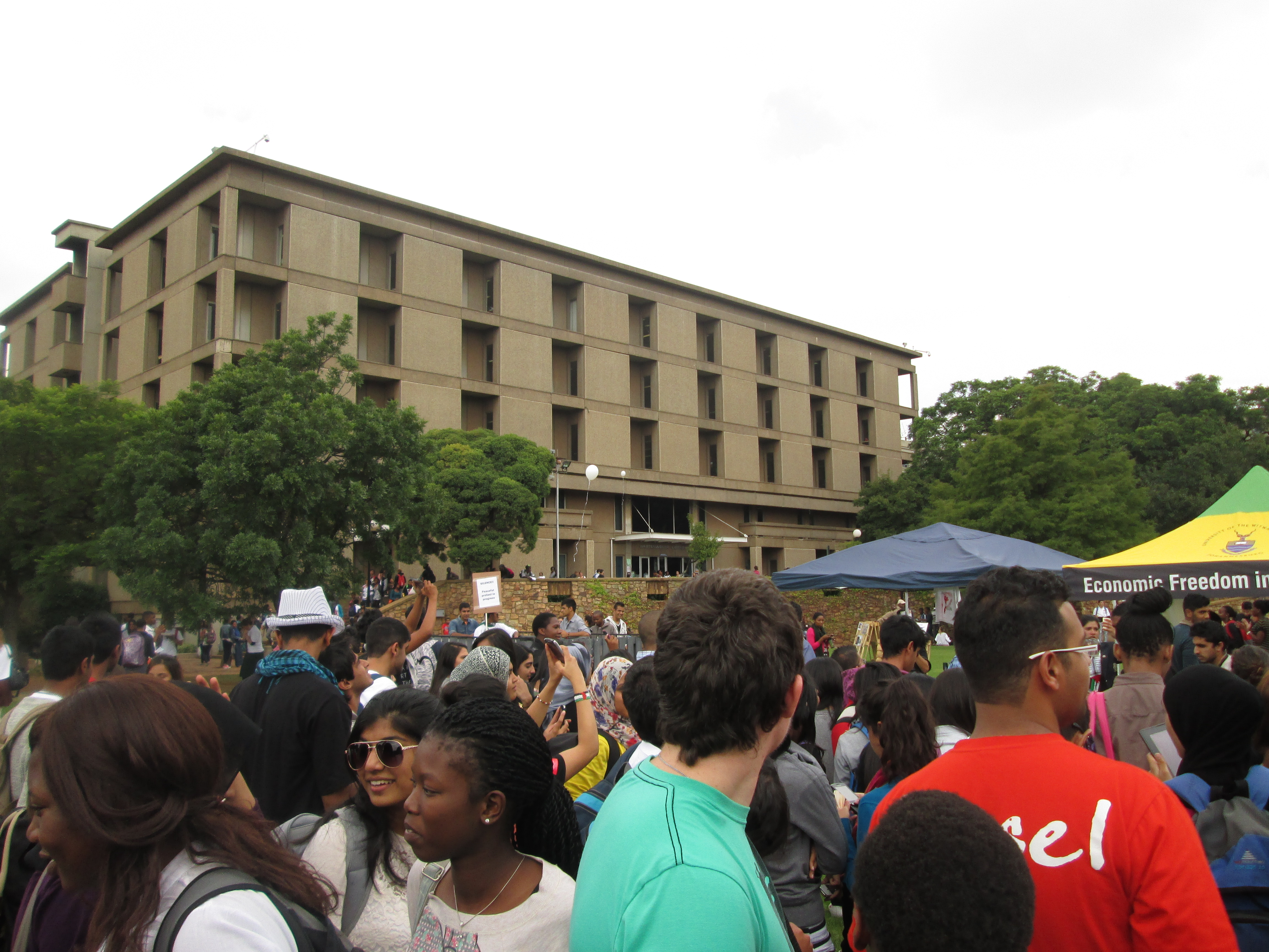 A busy moment on the East Campus of the University of the Witwatersrand, Johannesburg. In the foreground, a large crowd of students on the Library Lawns, in the background the Wartenweiler Library.